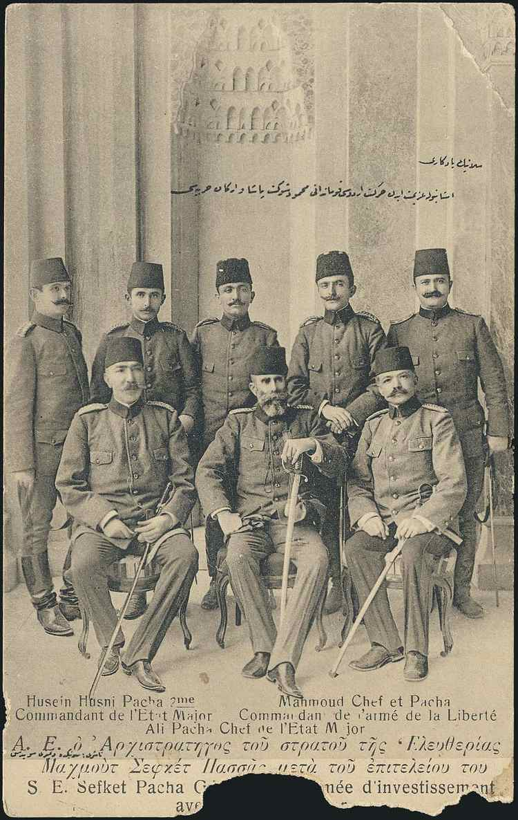 Staff of the Action Army. Original caption in Greek and